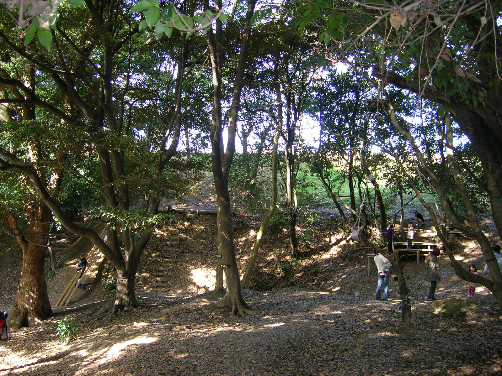 Sori Playpark Loc: Sori Greenery & Fureai Park, Chita city, Aichi Prefecture, Japan. そうりプレーパーク 撮影場所 愛知県知多市・佐布里緑と花のふれあい公園